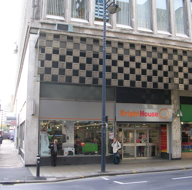 Bright House - Market Street